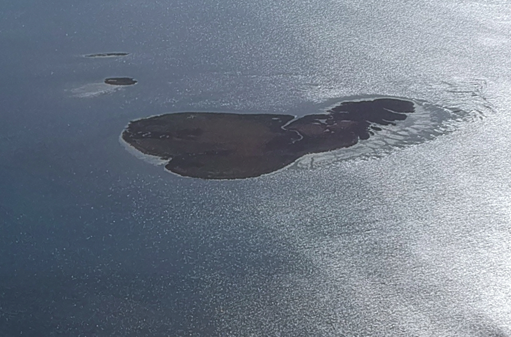 A view of three islands with Morro Bay, CA. Unit Island is visible center, with two other islands flanking it. The image is taken at high tide, as such the outlines of the islands are clearly defined.